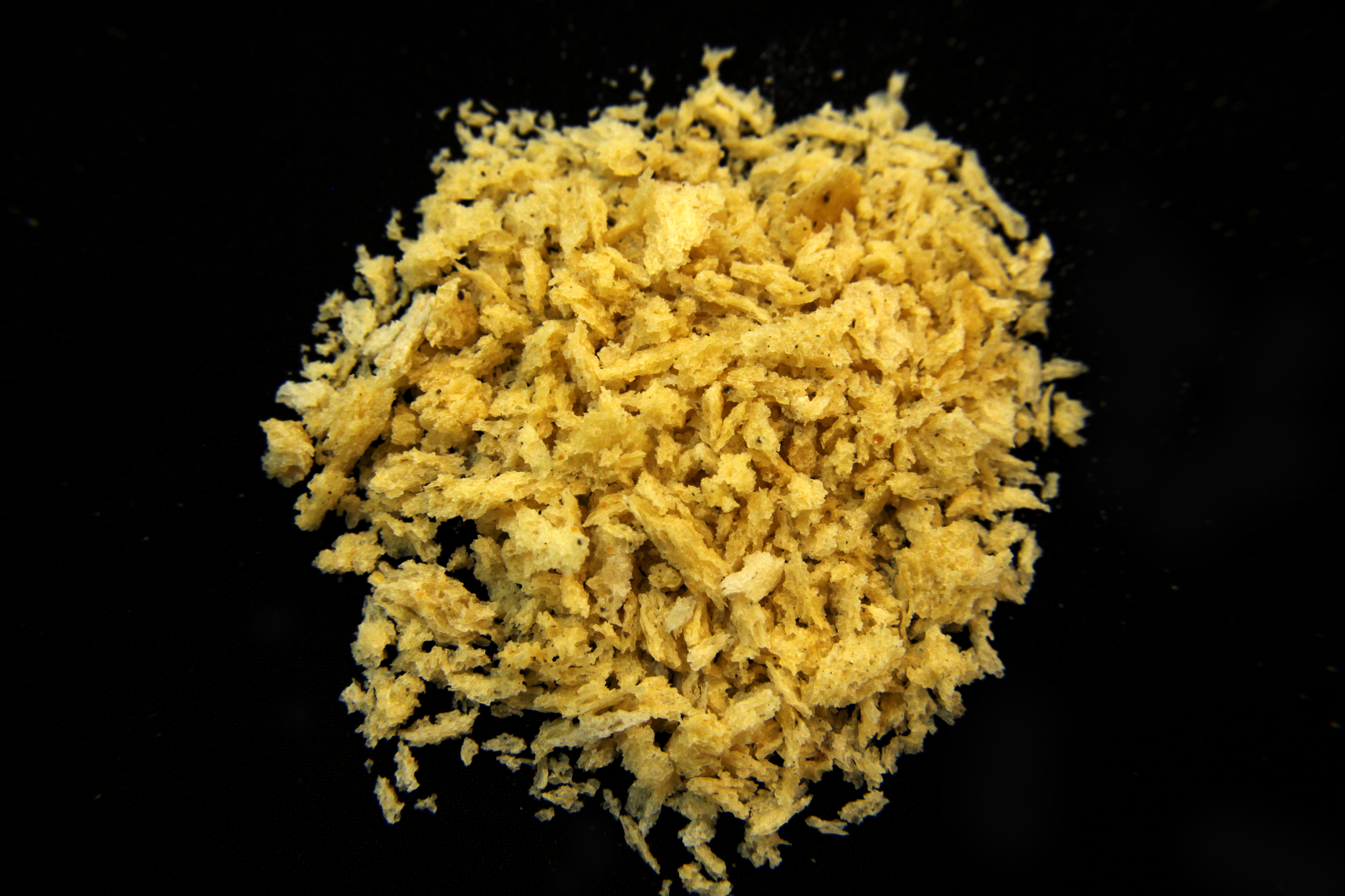 File name: 970610-IMG 7040-2-Panko-Spicy-3 Date: September 1, 2018 Thanks to Aftab Tejarat Negin (ATN) Company